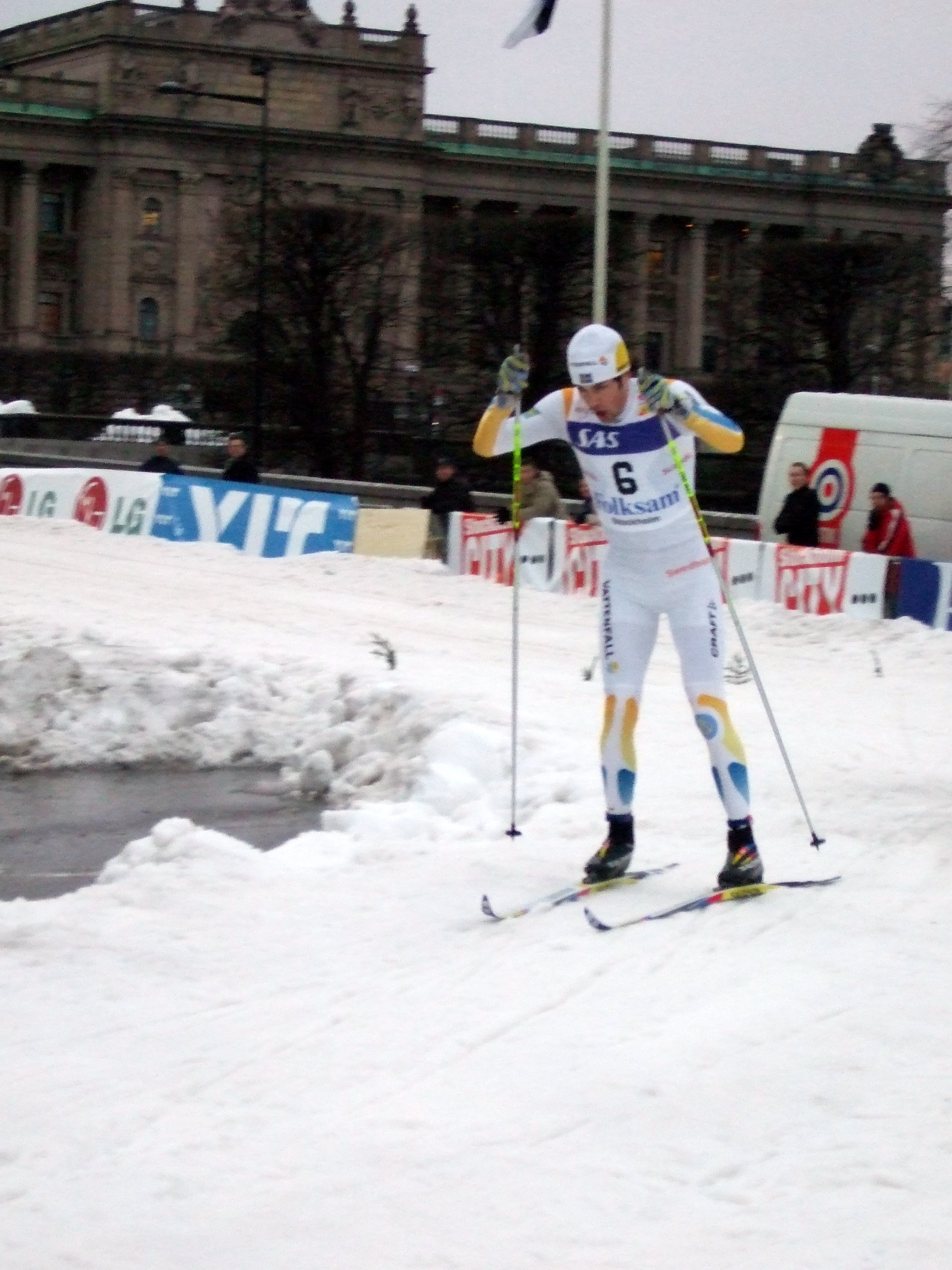 Mats Larsson at the Royal Castle World Cup sprint in Stockholm, Sweden